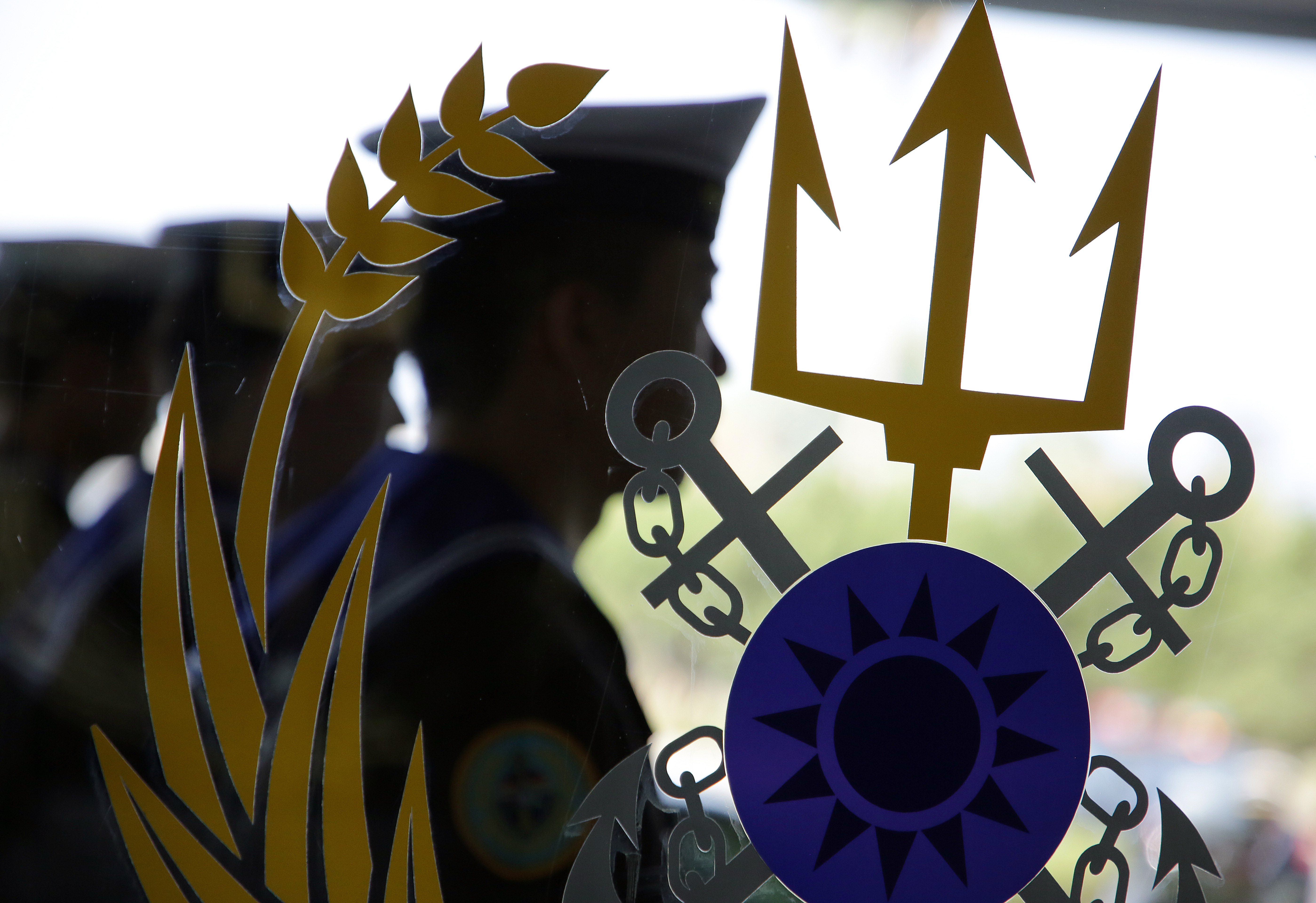 授權方式及範圍：中華民國總統府│政府網站資料開放宣告 Authorization Method & Scope: Office of the President, Republic of China (Taiwan) | Government Website Open Information Announcement